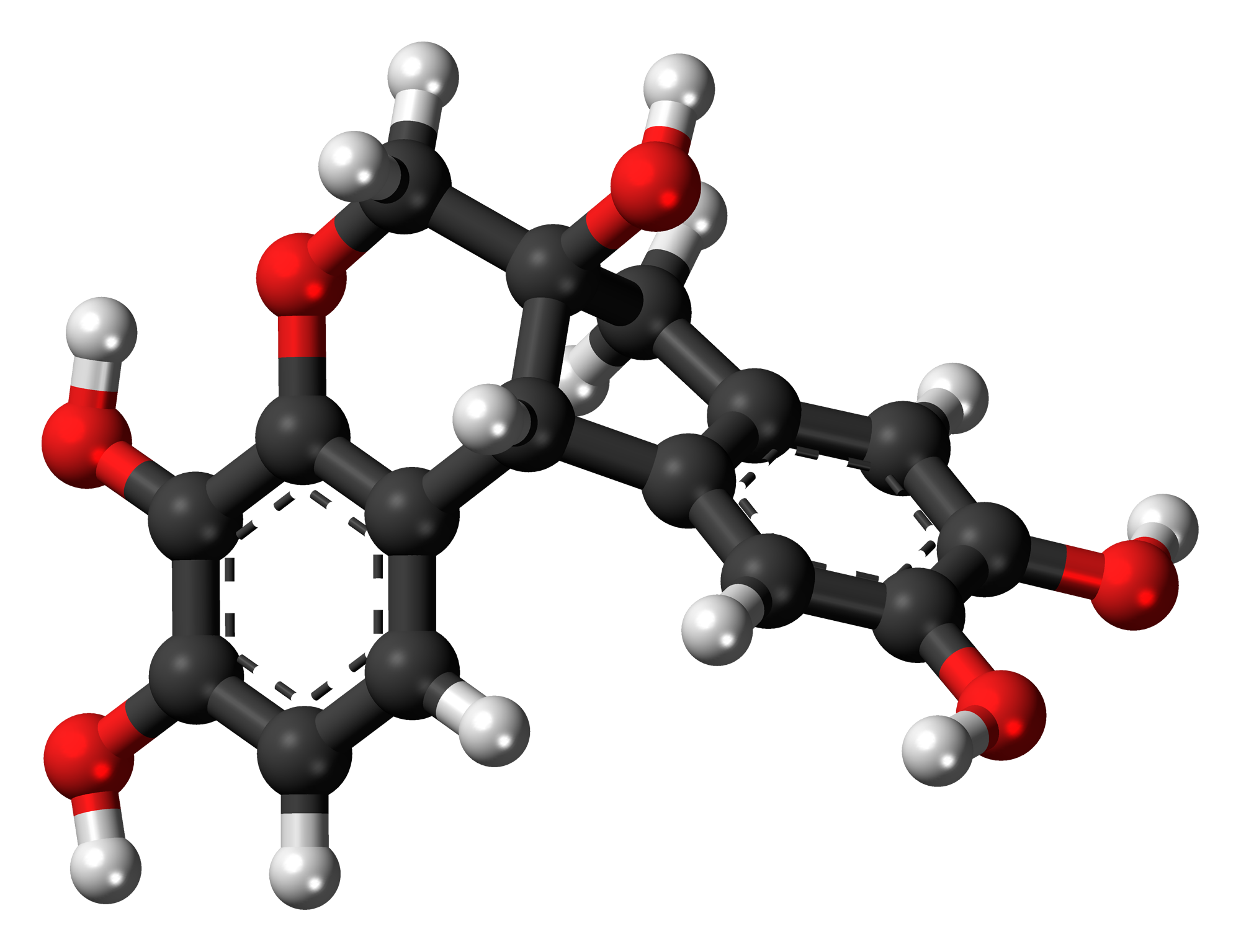 Ball-and-stick model of the haematoxylin molecule, also known as hydroxybazilin, a dye extracted from the logwood tree. Colour code: Carbon, C: black Hydrogen, H: white Oxygen, O: red